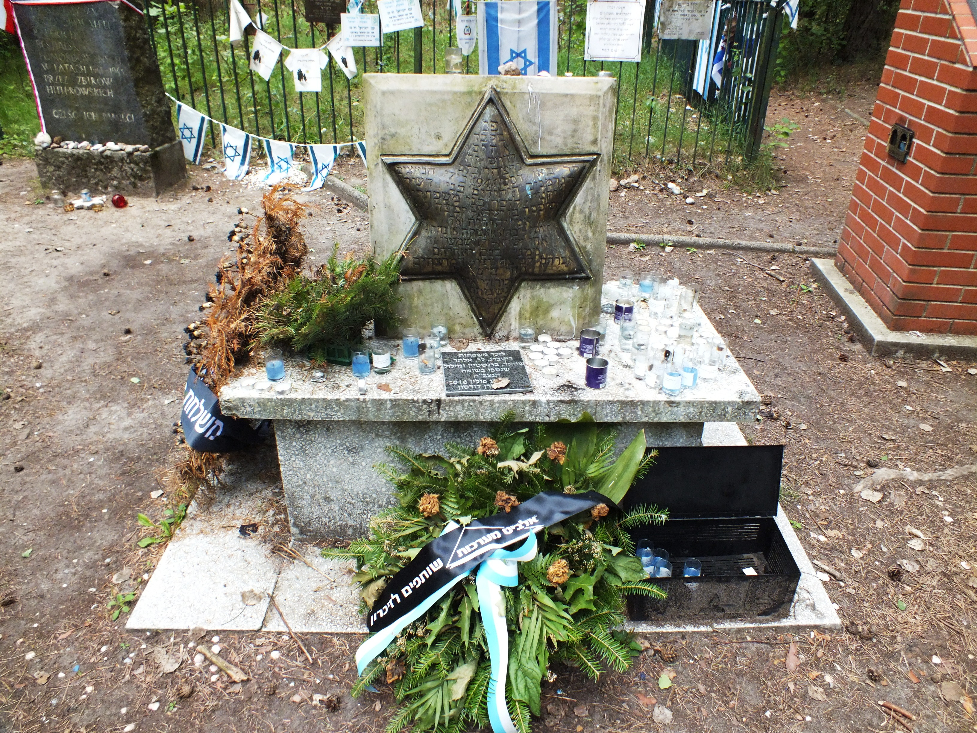 Mass grave of Jews from Tykocin - the place of the massacre in the forest near Łopuchowo (August 25th, 1941). Monument exposed on the 50th anniversary of the massacre in Hebrew.